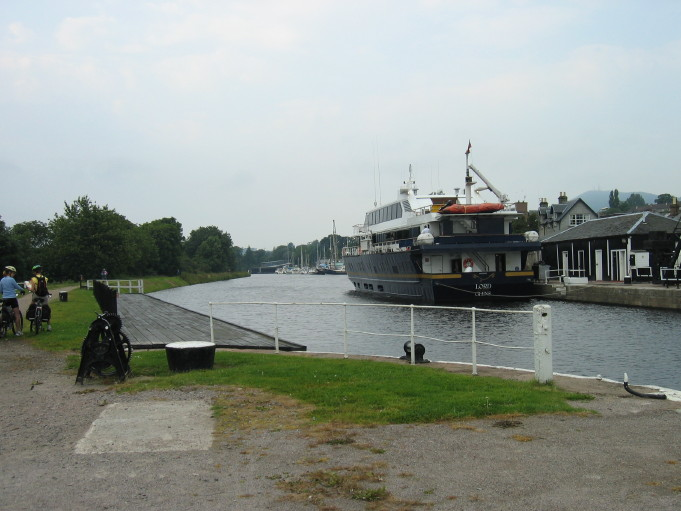 The Caledonian Canal near Inverness. Picture taken by PerPlex.